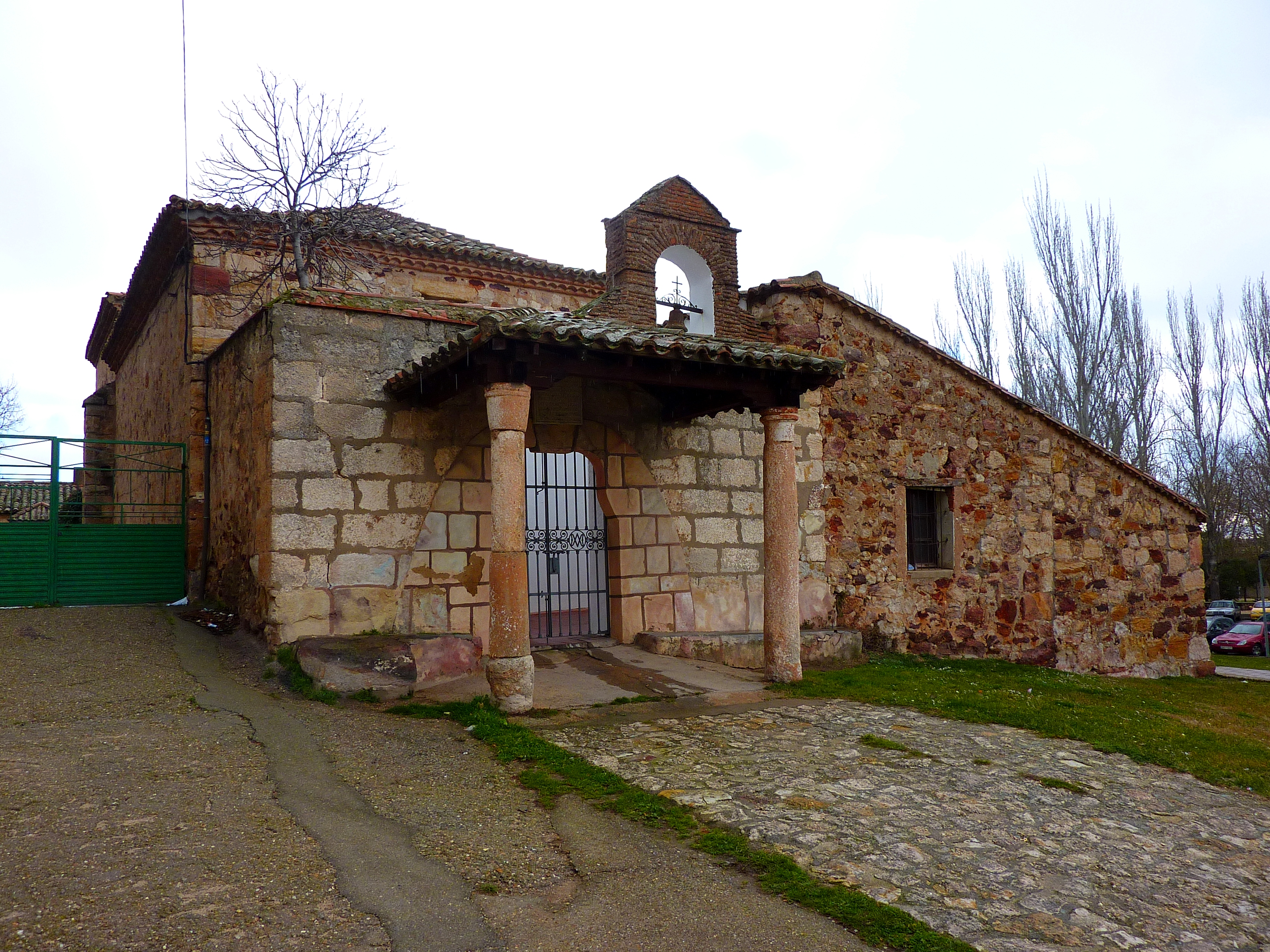 Chapel of Our Lady of the Peña de Francia, Zamora, Spain.